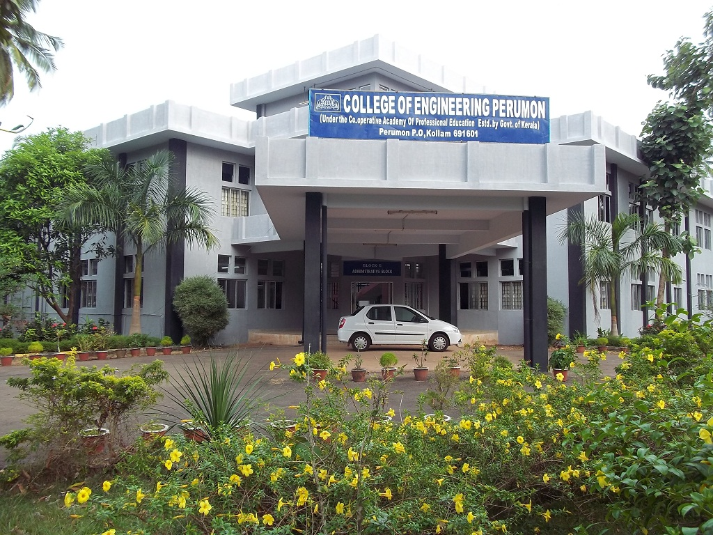 Main Block